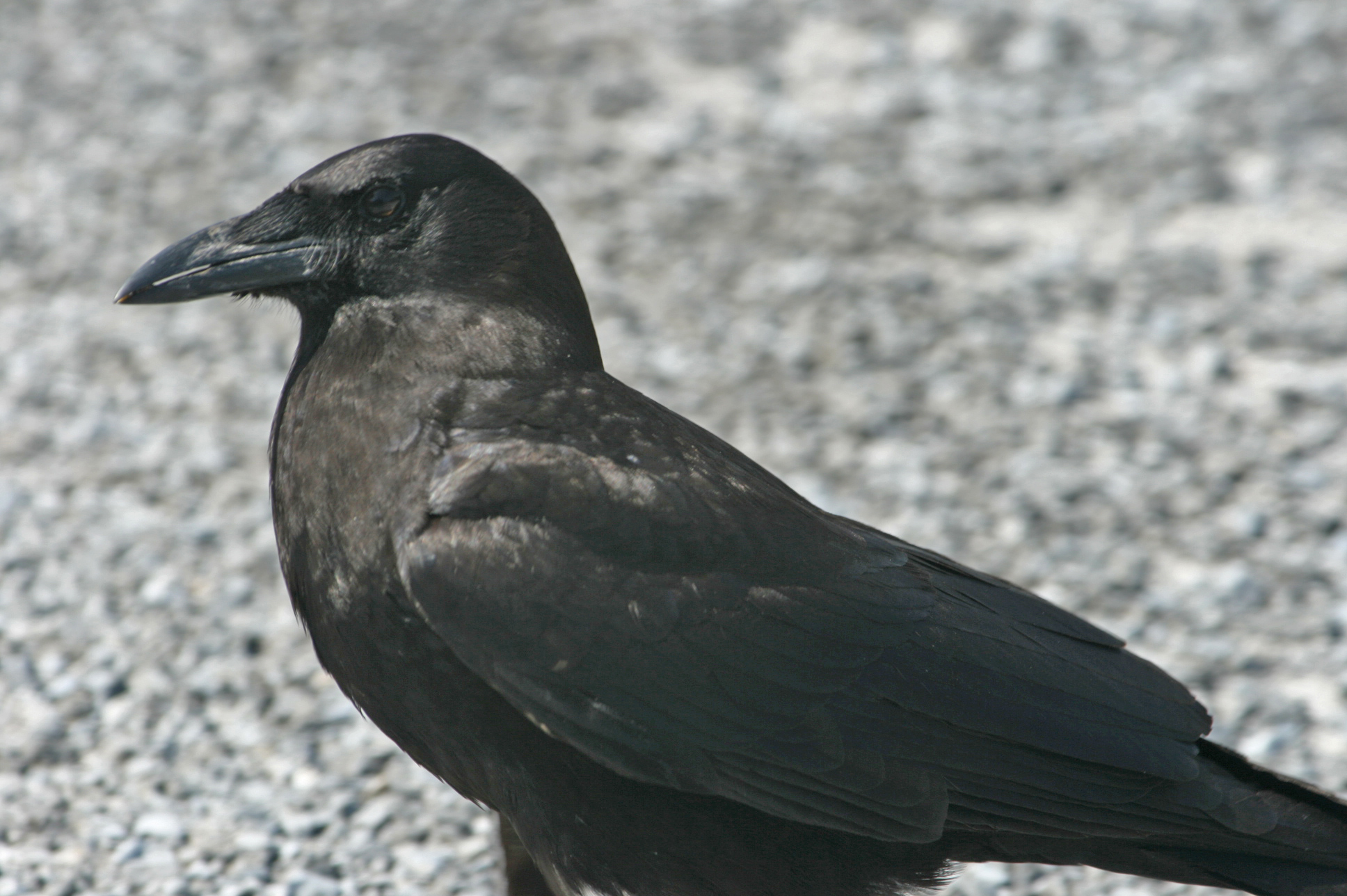 Corvus ossifragus, Everglades National Park, Florida